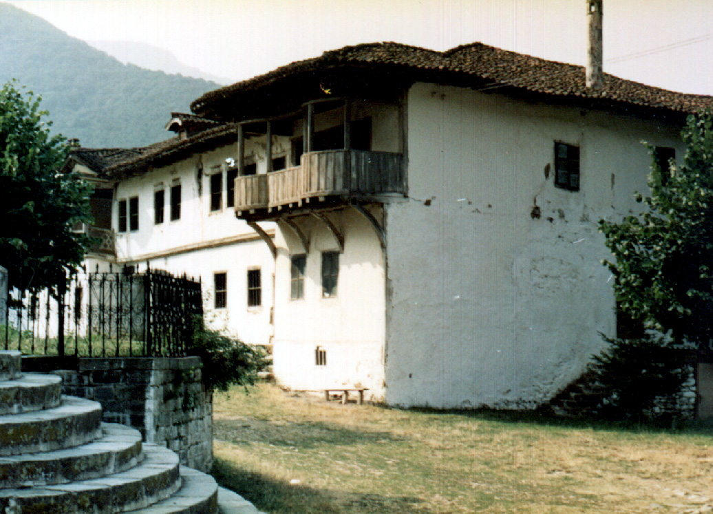 Prohor Pčinjski Monastery in 1979